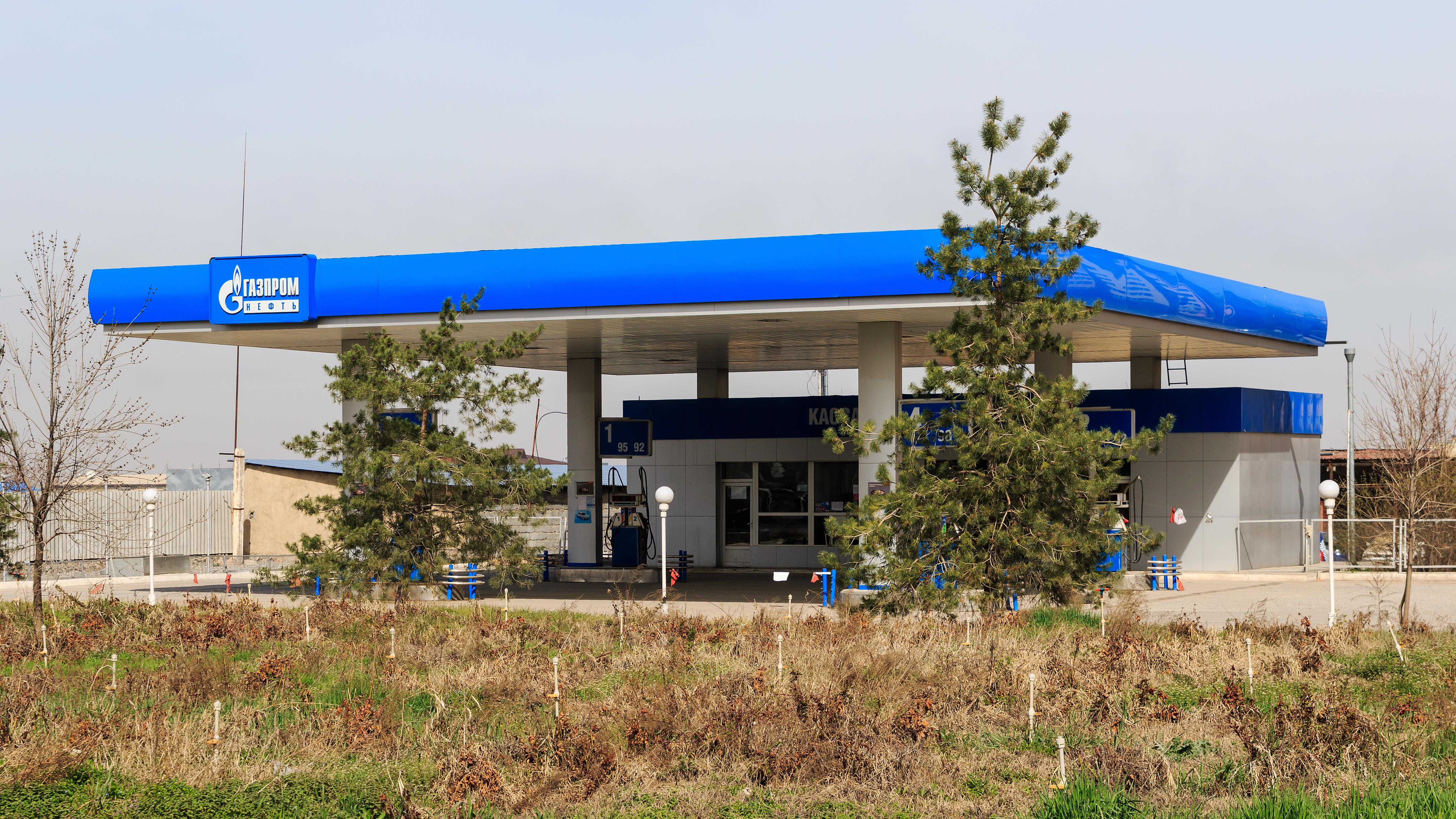 Gazprom Neft petrol station in Bishkek, Kyrgyzstan